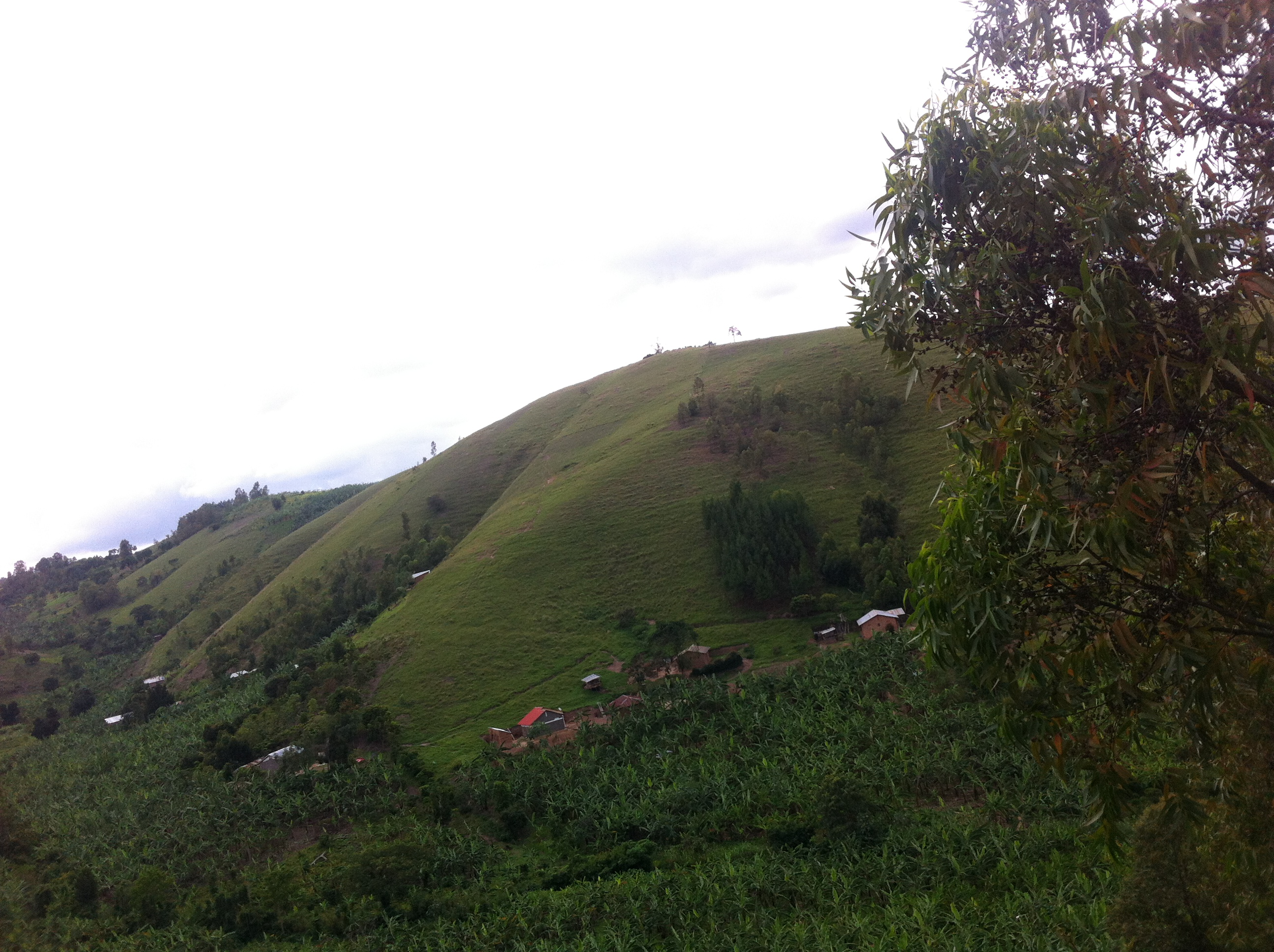 This is an image with the theme "Africa on the Move or Transport" from: Uganda